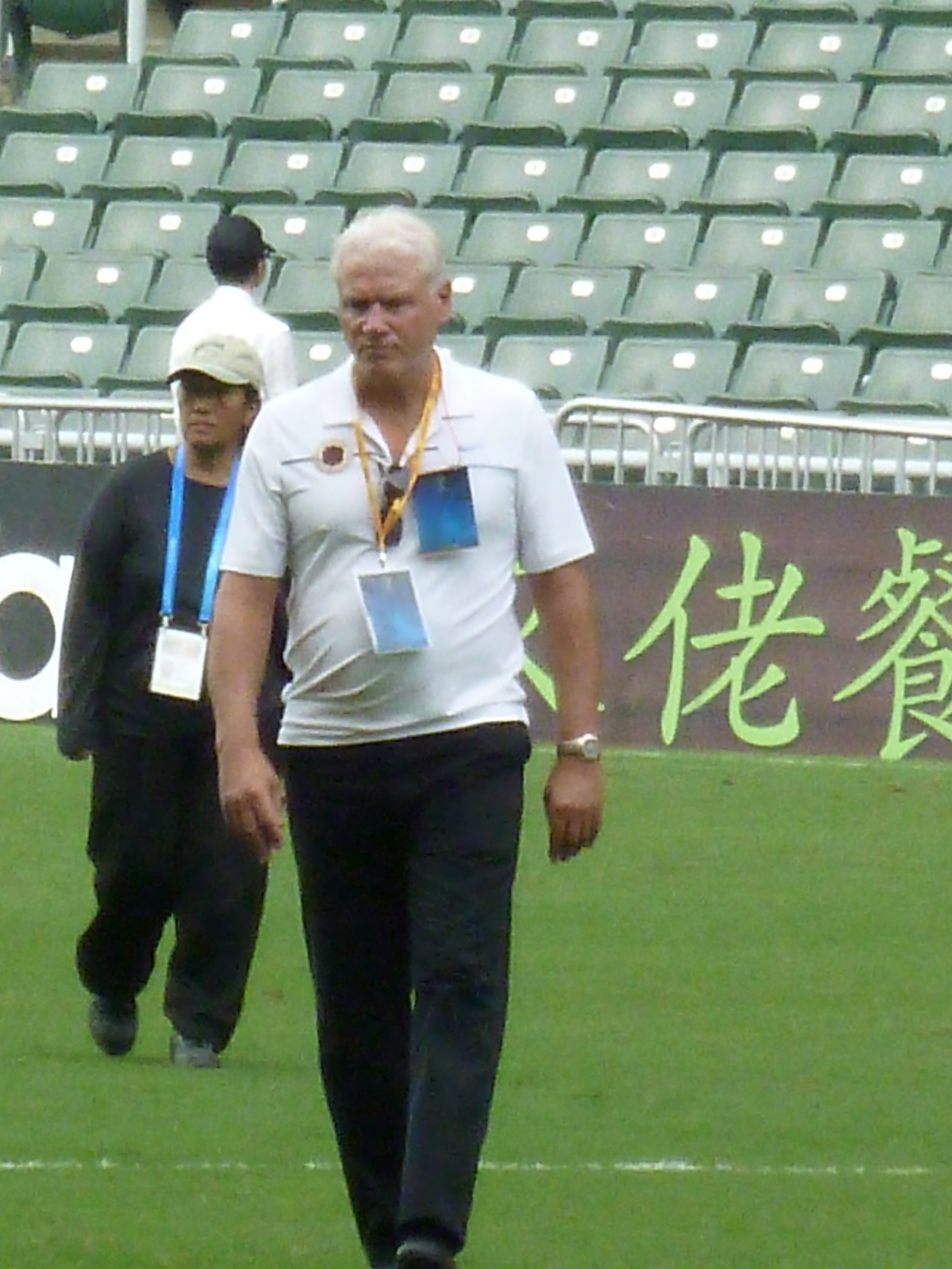 Steve O'Connor (21 Sept 2013, Hong Kong First Division League, South China vs Kitchee, Hong Kong Stadium) 中文（香港）: 歐智勳 (21 Sept 2013, 香港甲組足球聯賽, 南華 vs 傑志, 香港大球場)